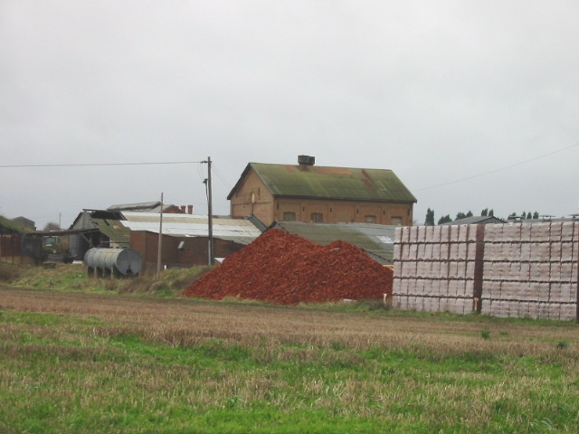 The rear of the Hammill brickworks, Hammill, Kent.